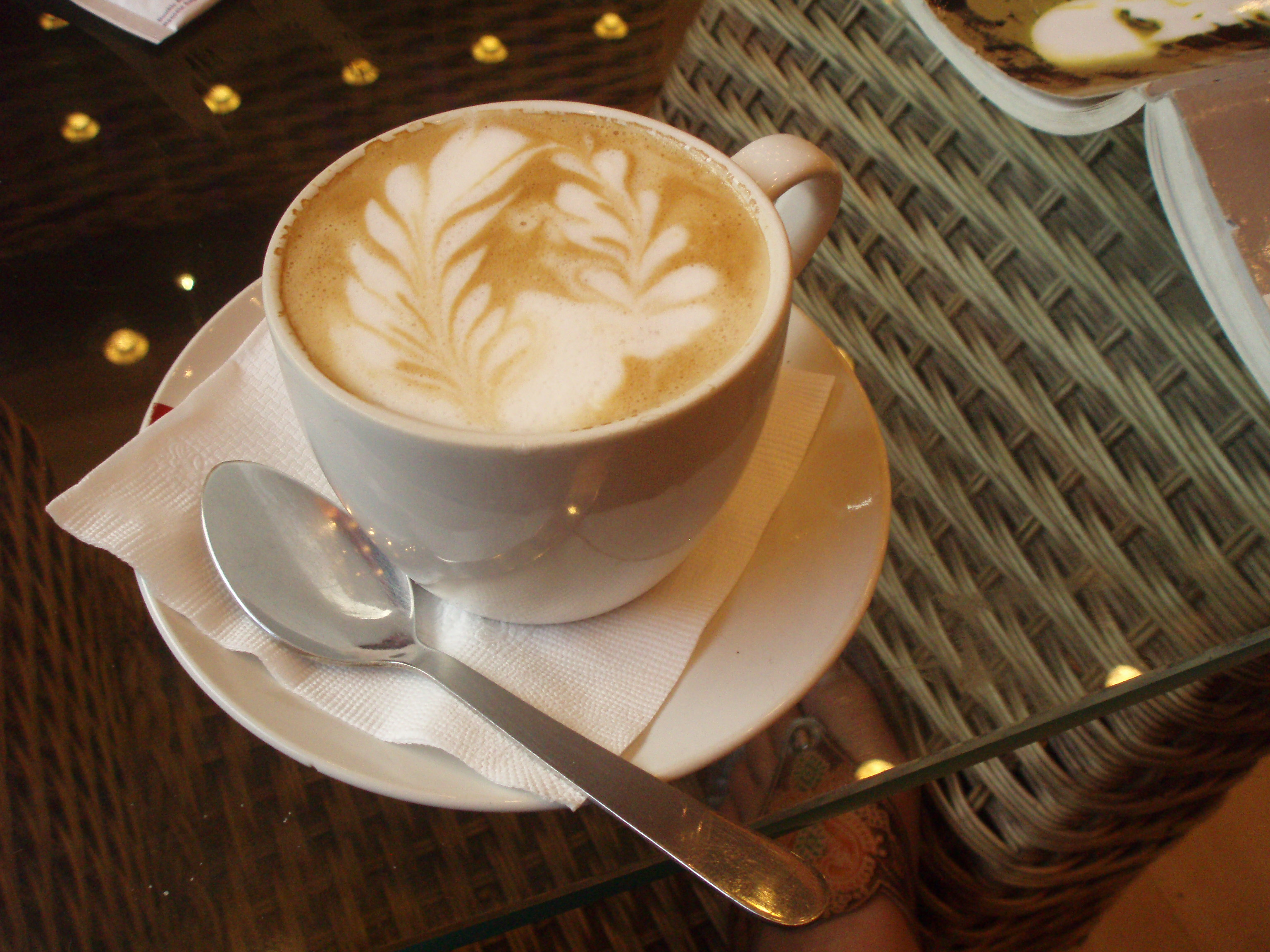 Perfect caffe latte from Cafe Coffee Day